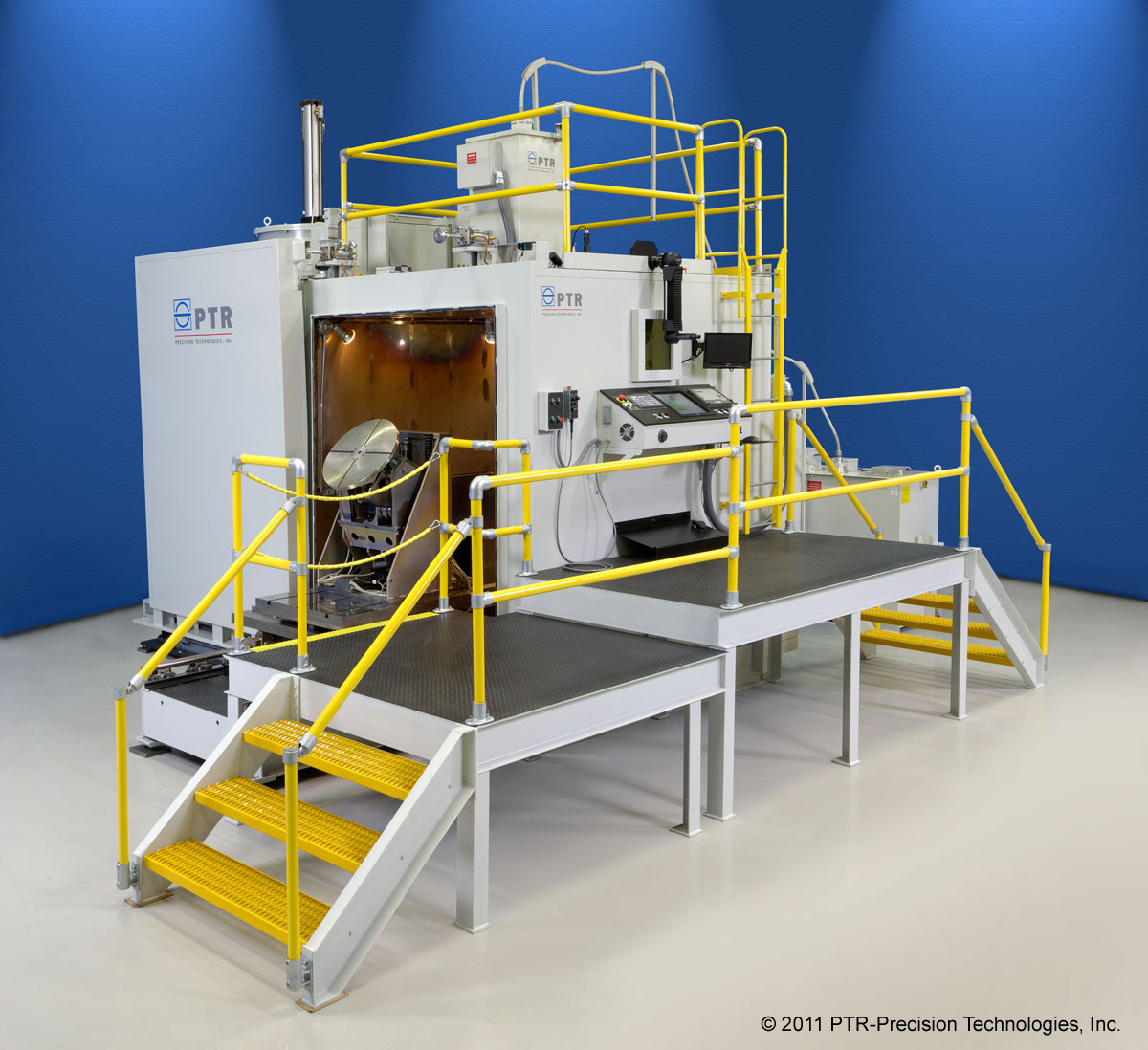 This is a modern, large chamber PTR Electron Beam (EB) Welding system with CNC and rotary table.